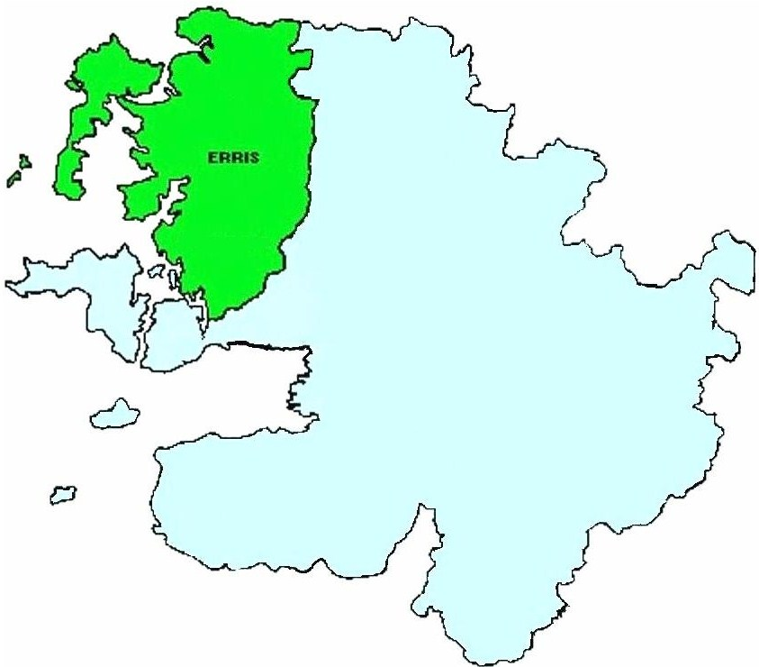 Barony Map of Mayo with Erris Highlighted